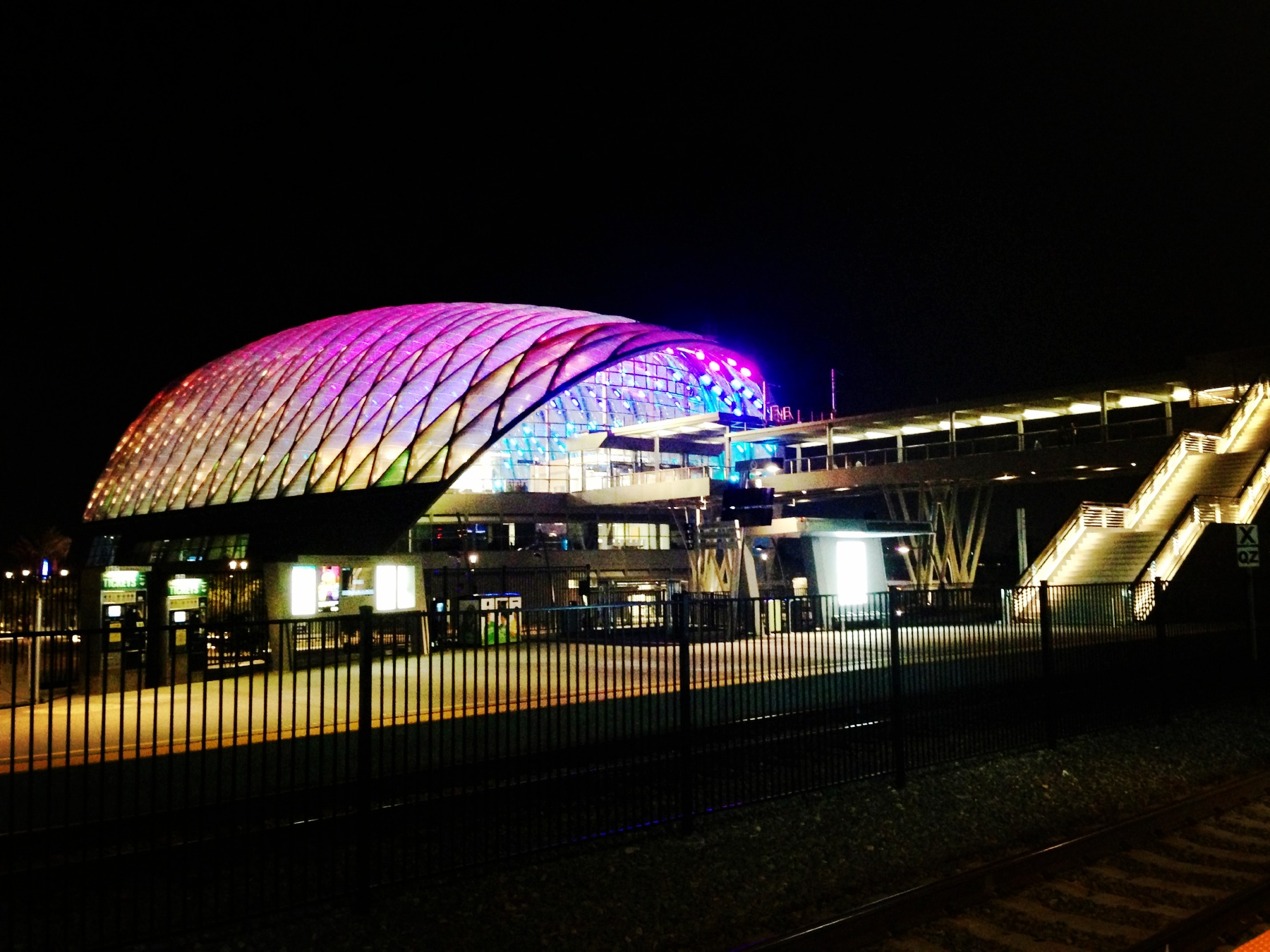 A look of the new Anaheim Station from the platforms at night.